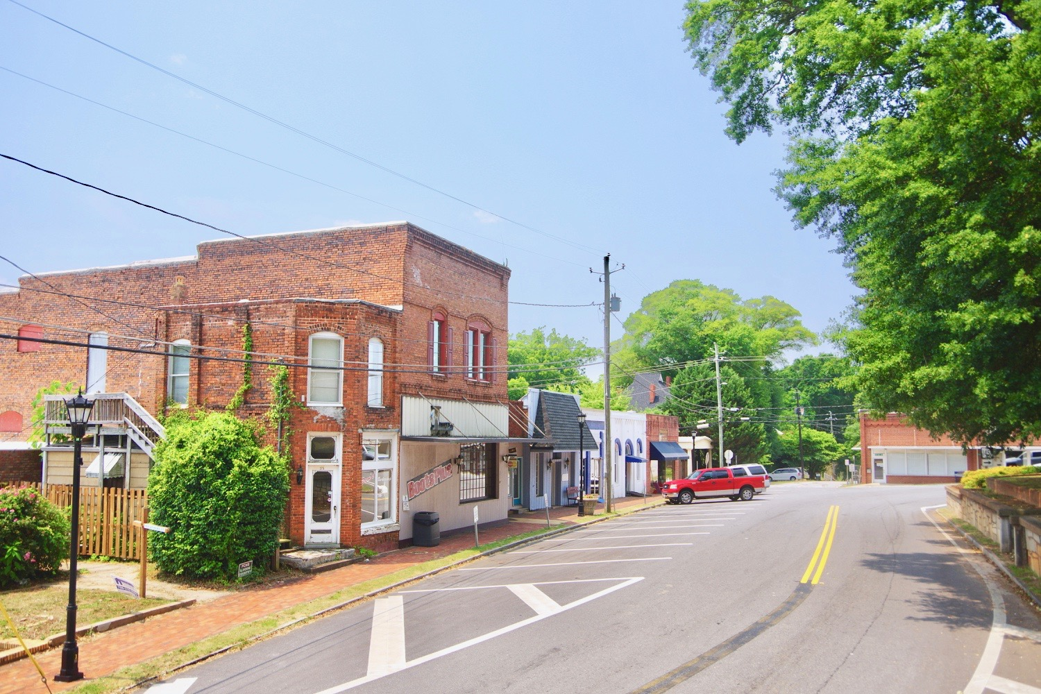 Buildings along Athens Street (SR 145) in Carnesville, Georgia, United States.